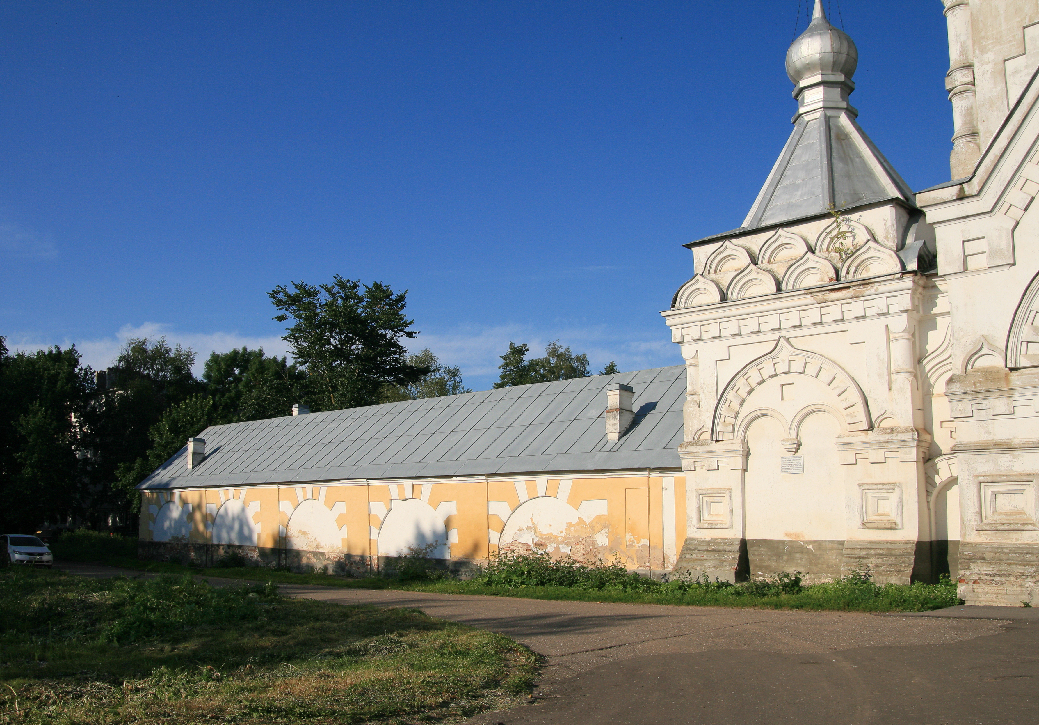 Eastern building of Desyatinny monastery, Veliky Novgorod